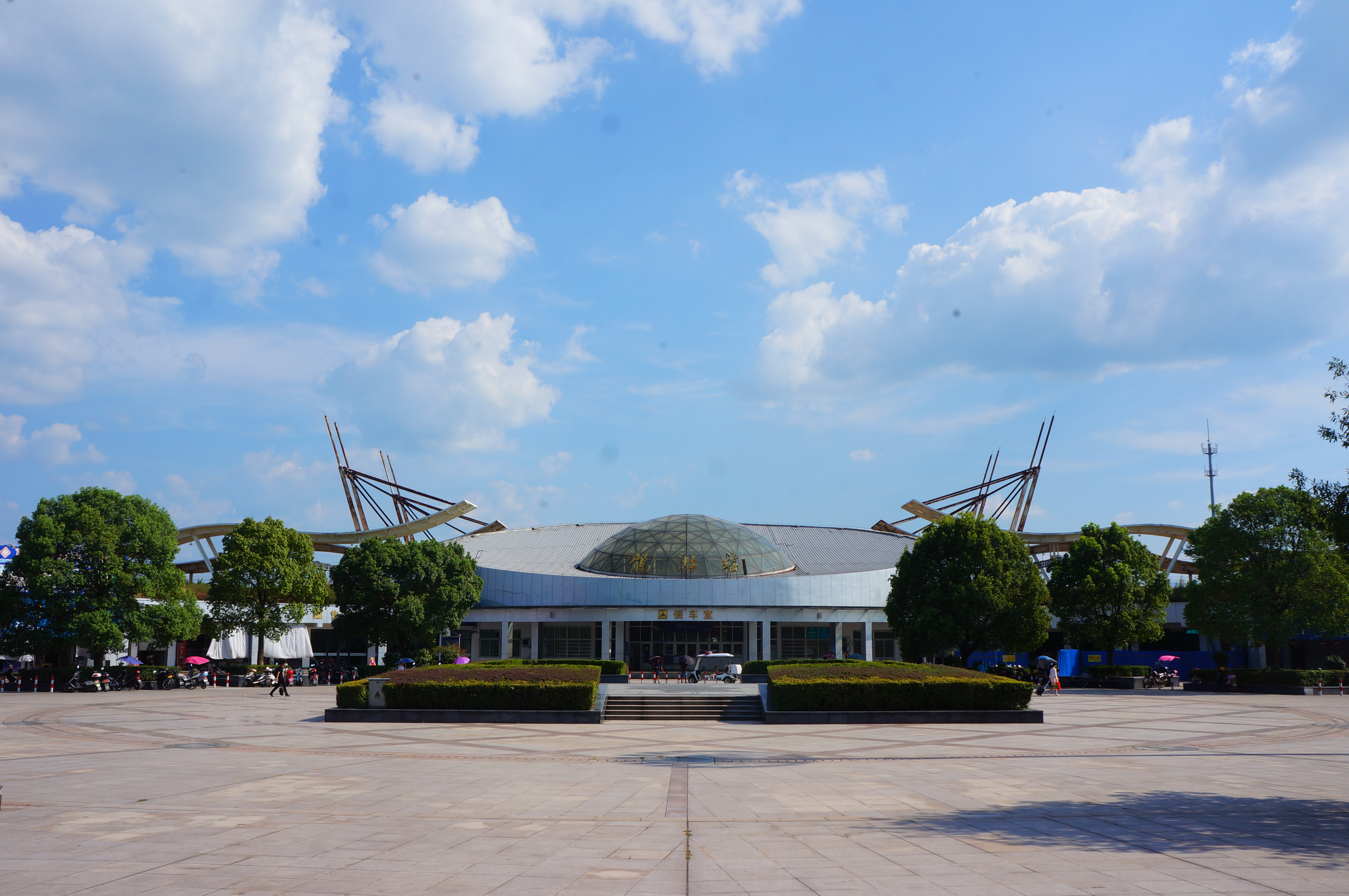 201608 Longyou Railway Station